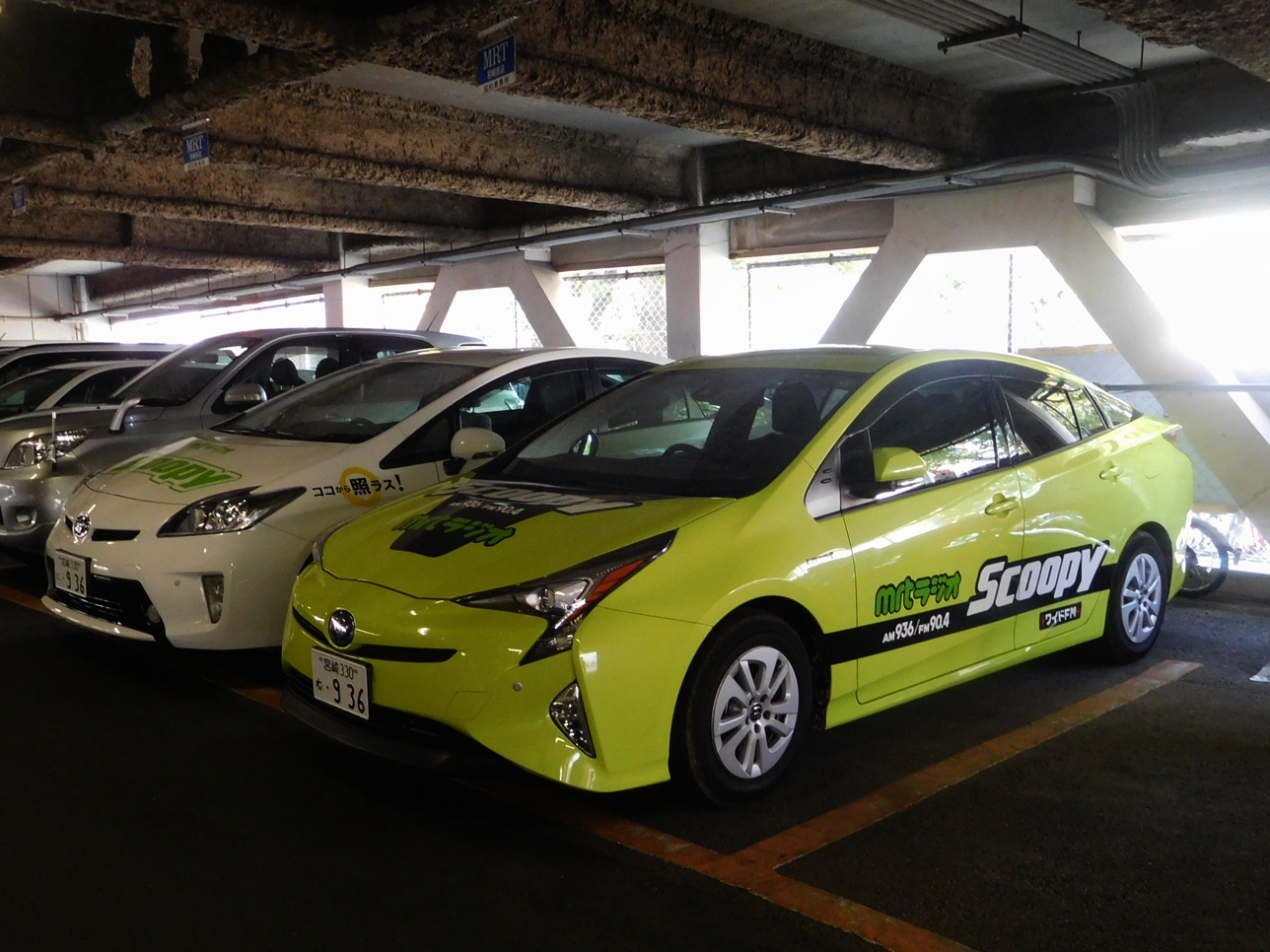 MRT Miyazaki Broadcasting Radio Car "Scoopy" Terrace-go (left) and Fresh-go (right).